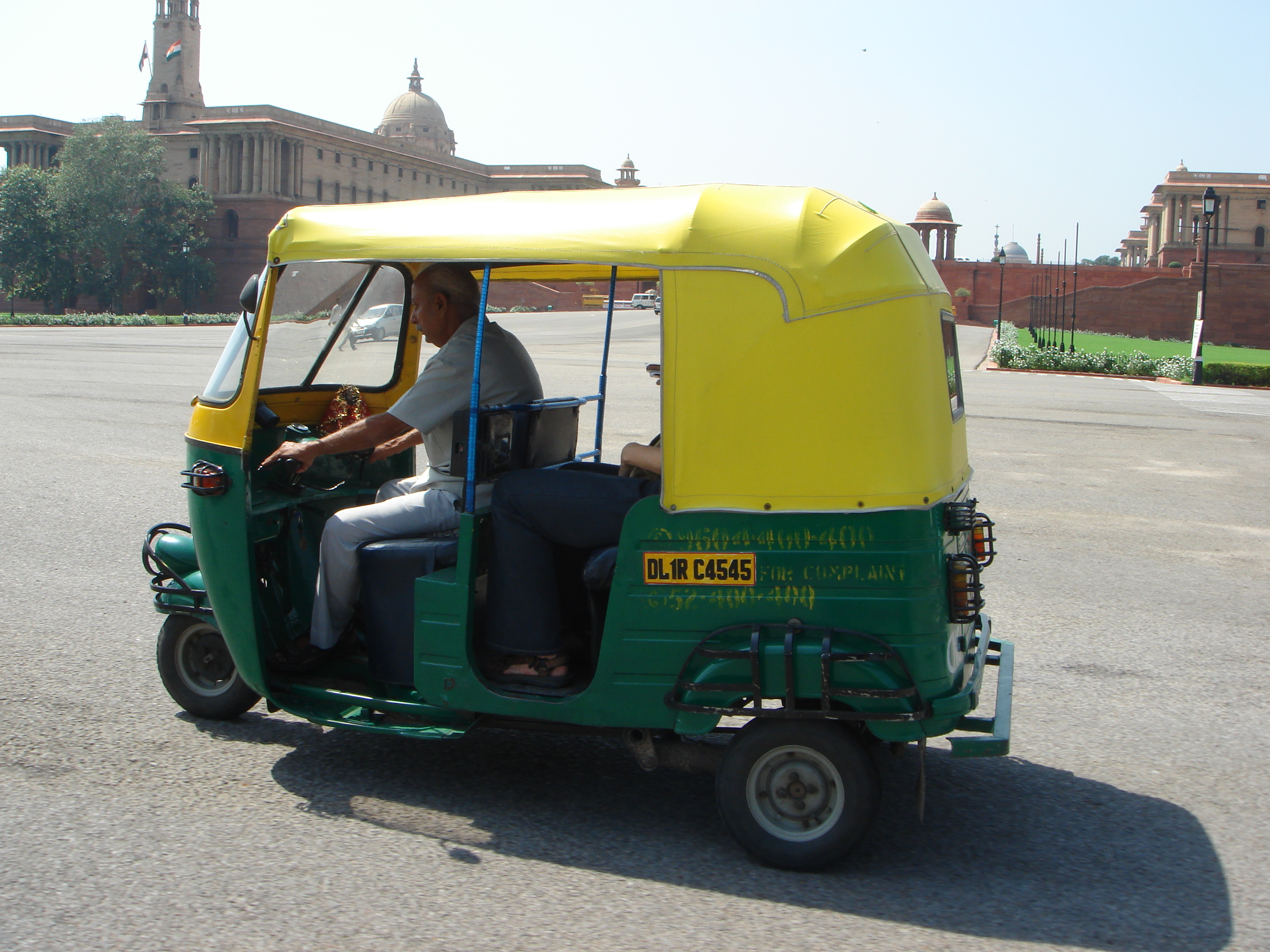 CNG-powered Autorickshaw in New Delhi, near the Rashtrapati Bhawan on Raj Path